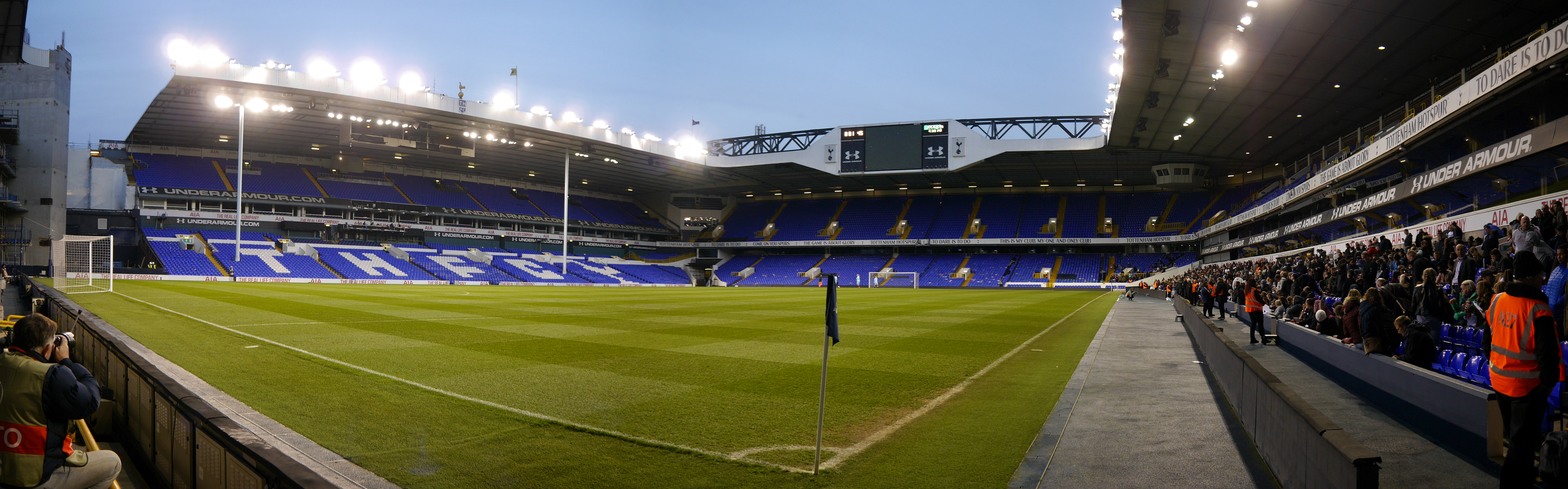 Panoramic view of White Hart Lane from North-West corner